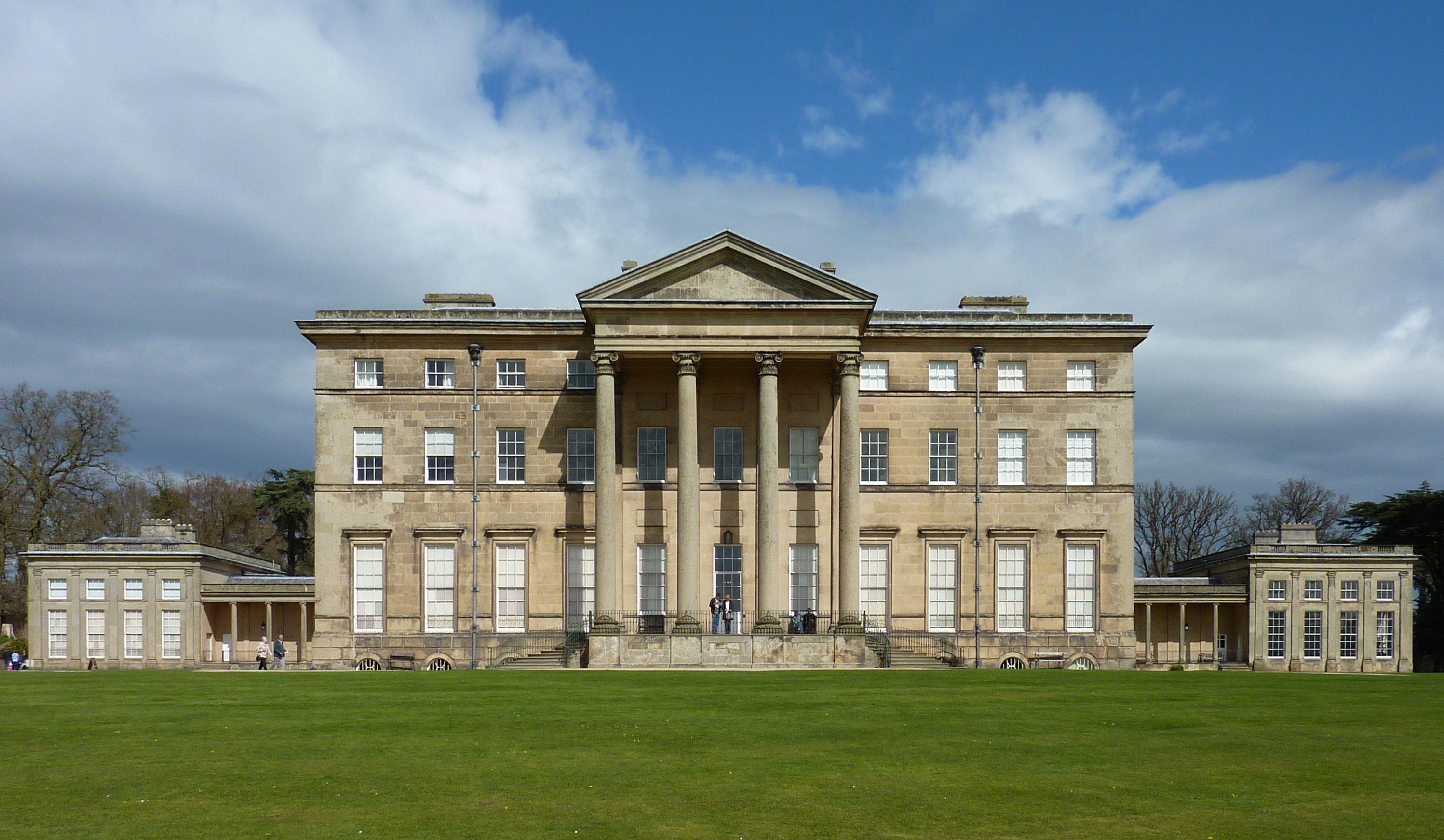 Attingham Park, Atcham, Shropshire, seen from the south